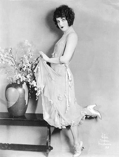 Portrait of American actress Madge Bellamy (1899–1990) by American photographer Albert Witzel.